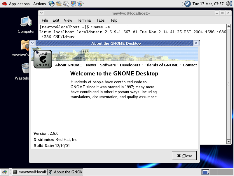 Screenshot of Fedora Core 3